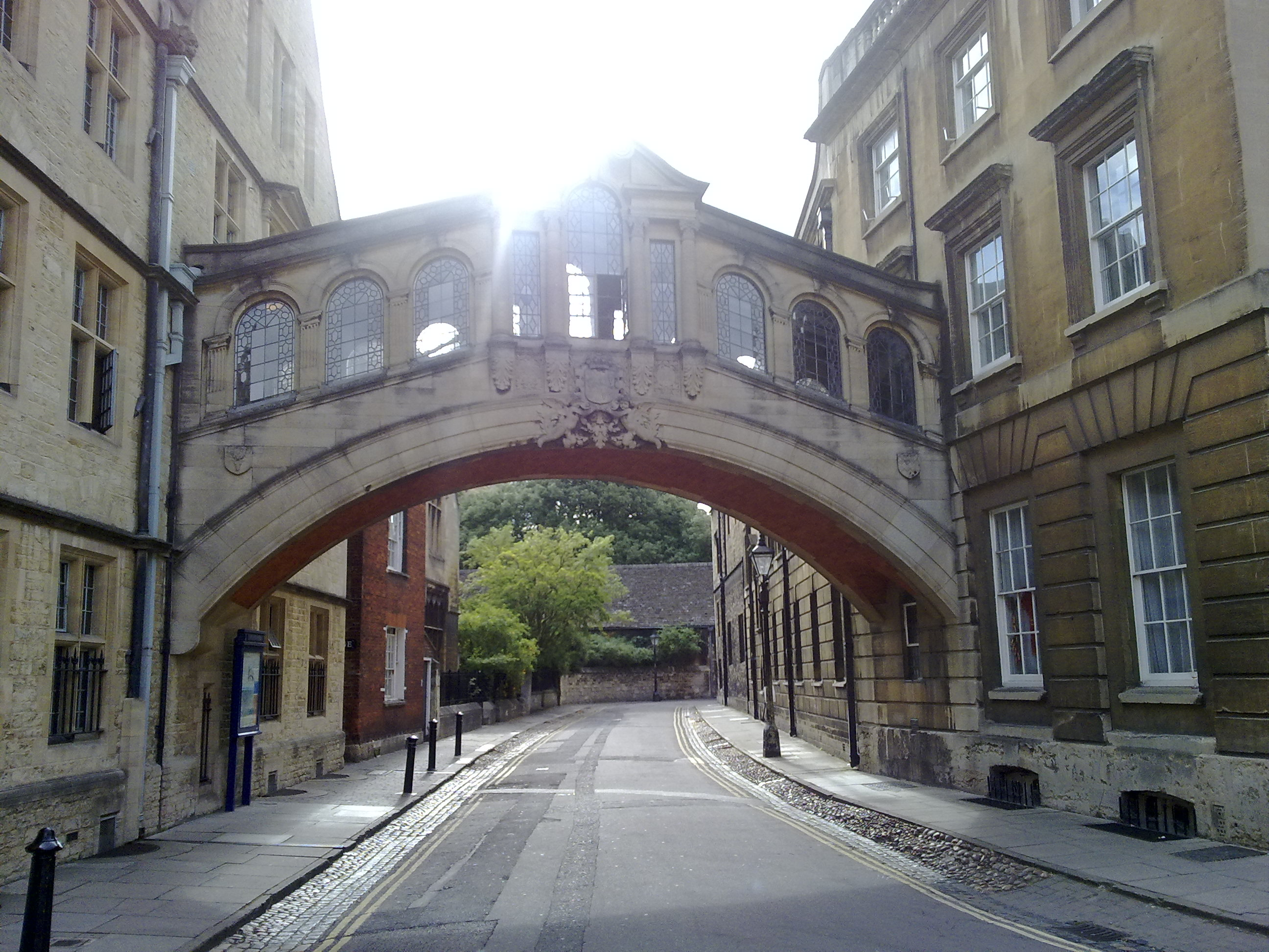 New College Lane, Oxford, begins from Catte Street, passing under the Bridge of Sighs.